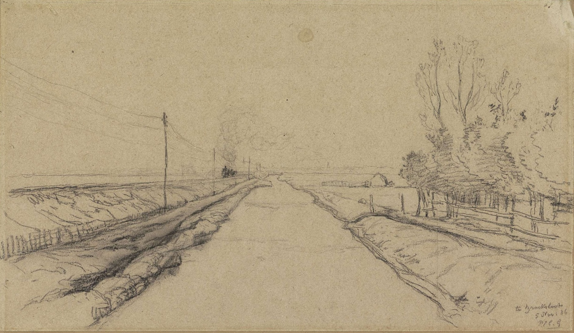 Il vient de loin, study